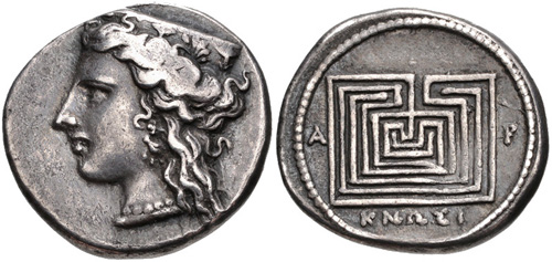 Knossos, 300-270 BC. Silver Drachma (19mm, 5.41 g). Head of Hera left, wearing ornamented stephanos, triple-pendant earring, and necklace / Labyrinth; A-P flanking, KNΩΣI(ΩΝ) "of Knossians" below.